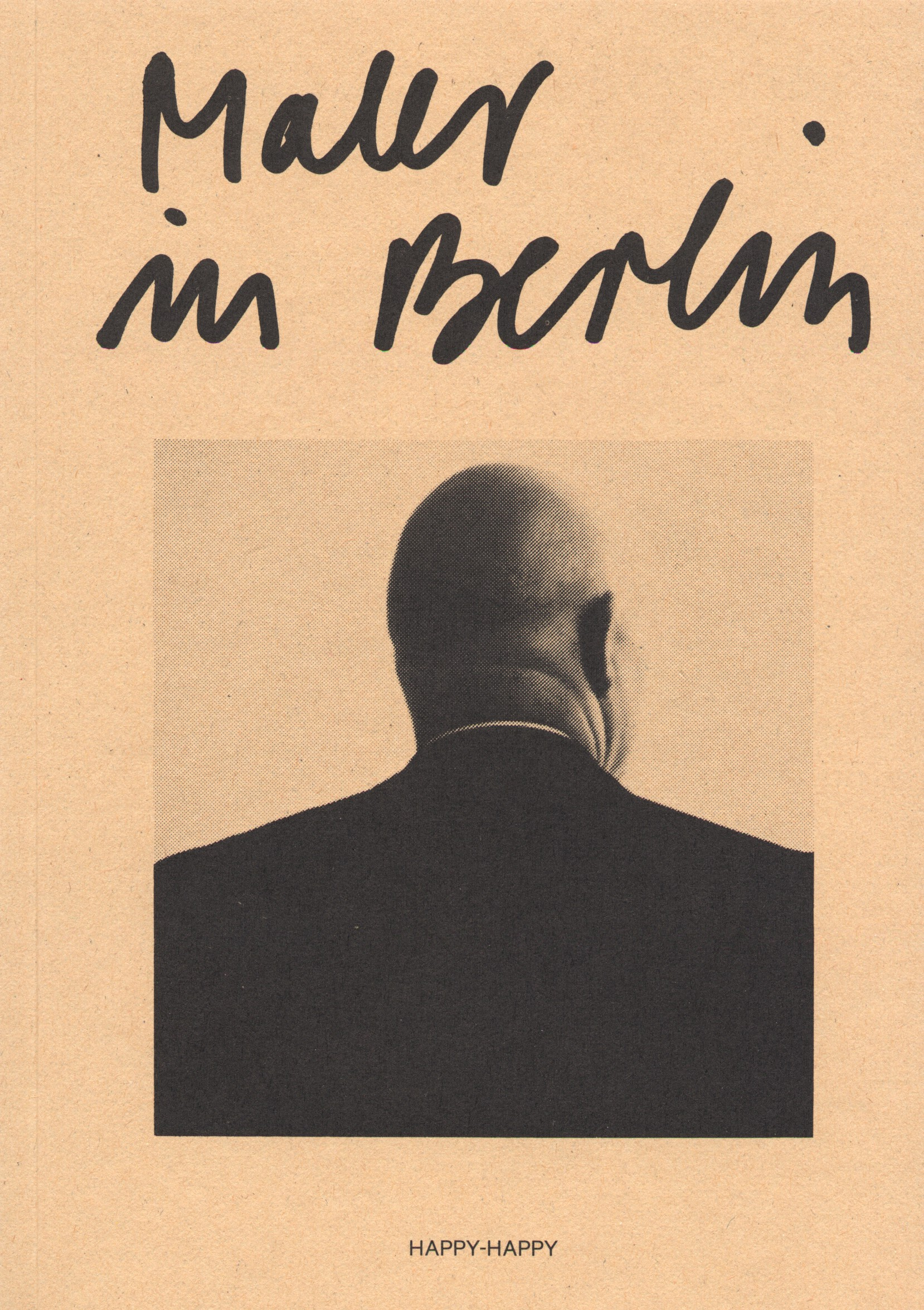 Cover "Maler in Berlin", 1982